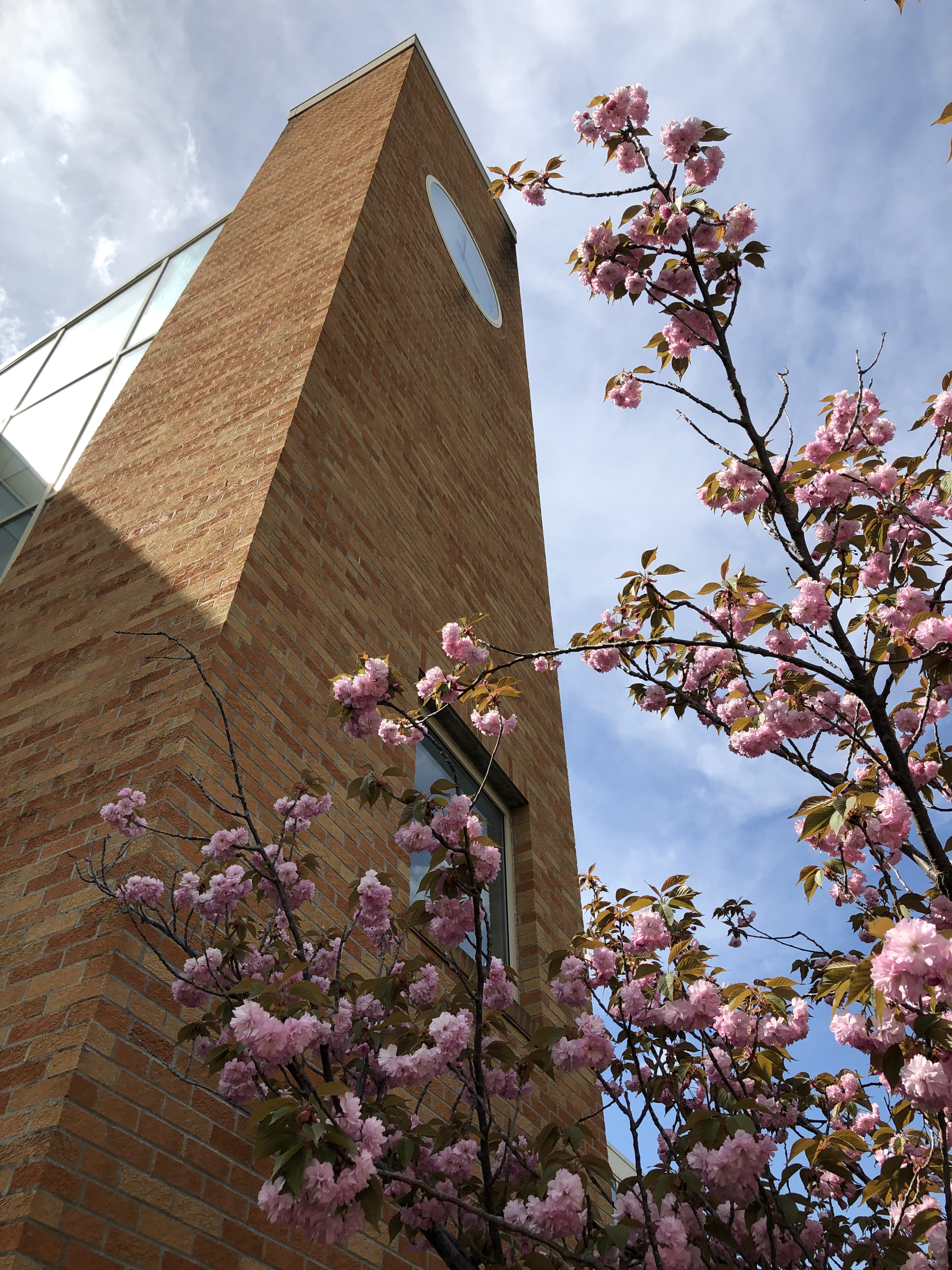 The clocktower of the Bowen Thompson Student Union. Designed by Hiroko Nakamoto.